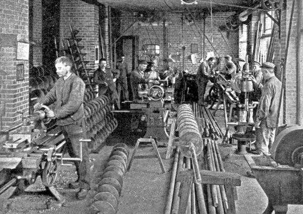 Københavns Møllestensfabrik og Møllebyggeri 1903